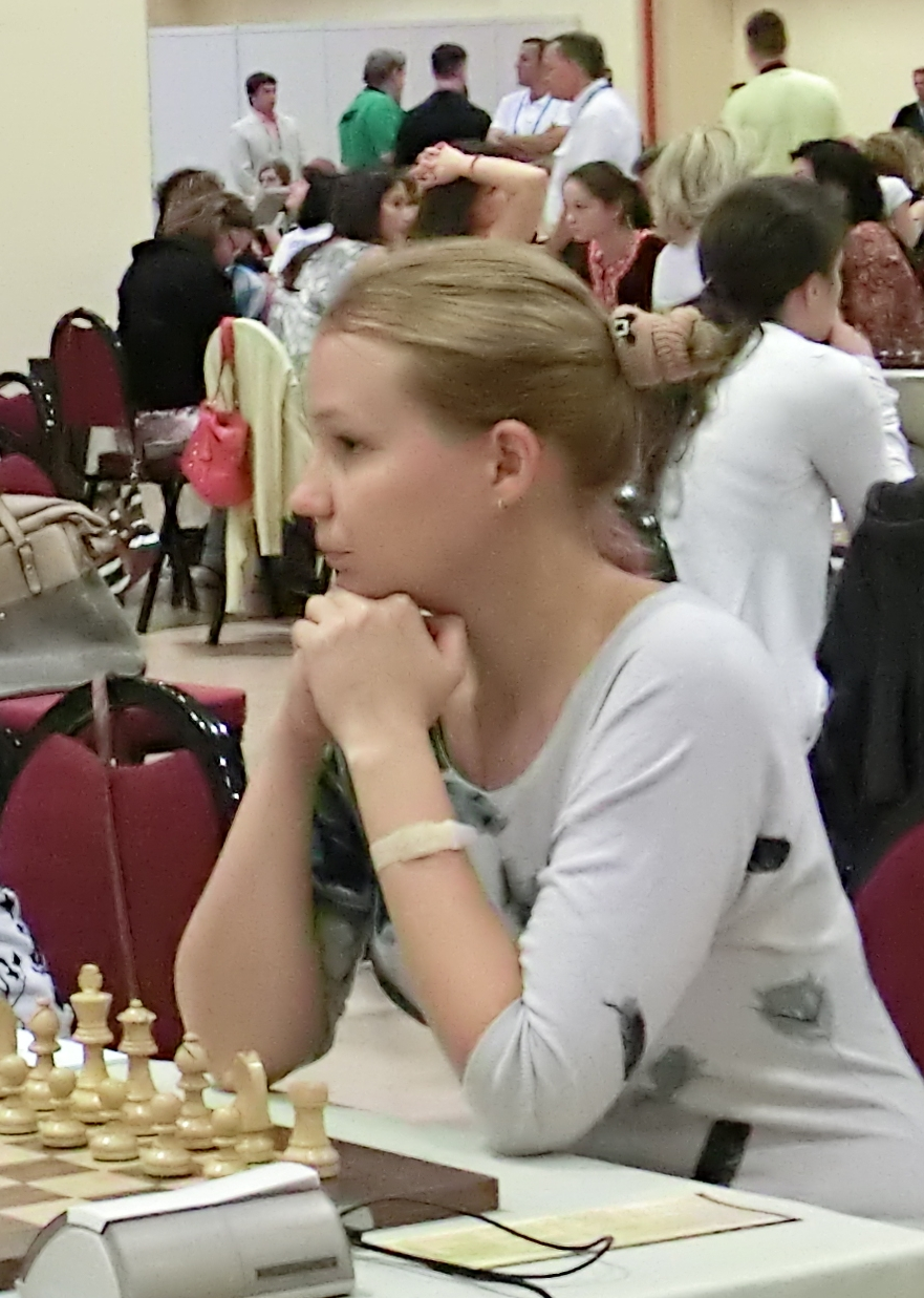 Valentina Gunina, chess player from Russia